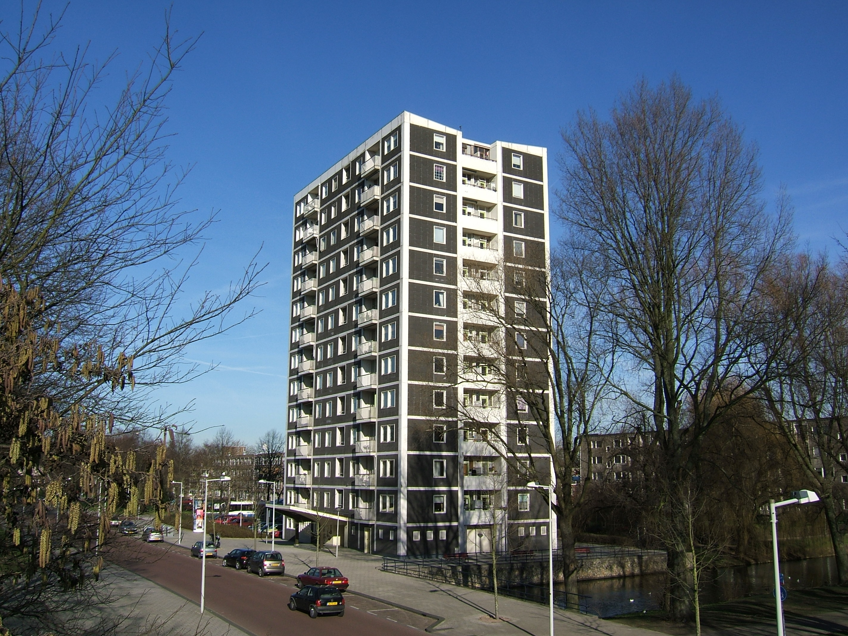 Template:En"